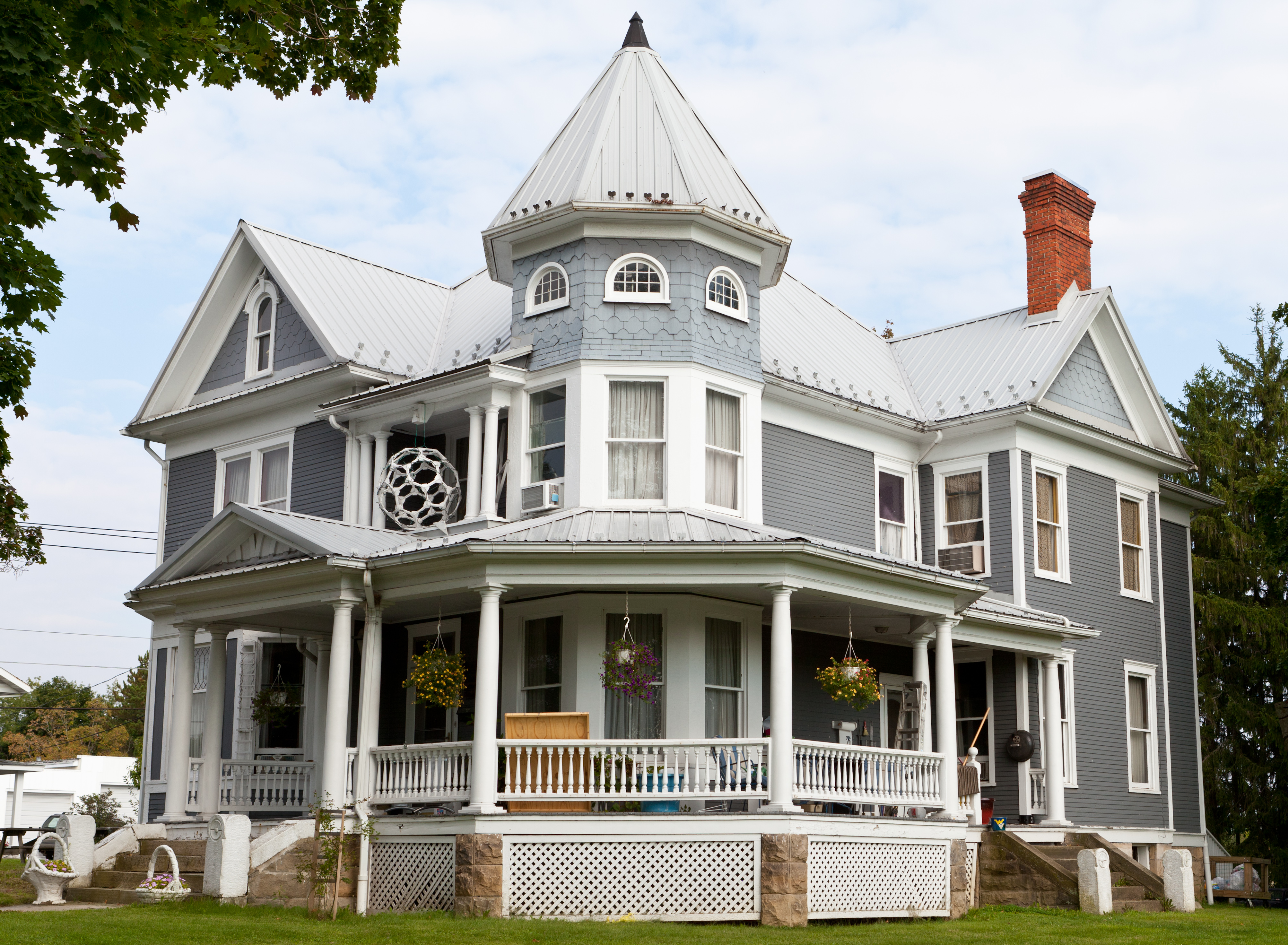 Kingwood Historic District in Kingwood, West Virginia, the Dr. Rudisell House, 201 East High Street, built ca. 1895.